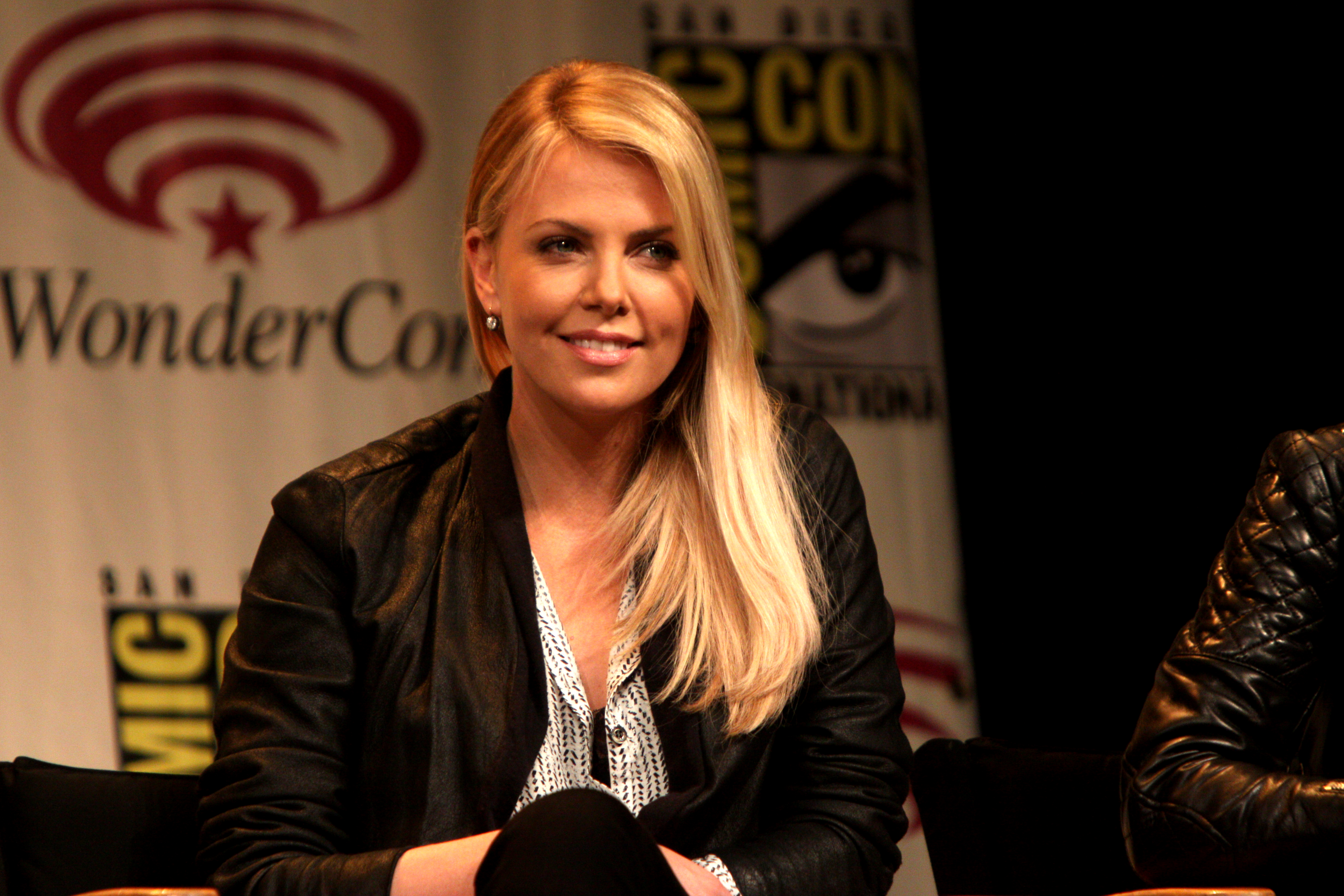 Charlize Theron speaking at the 2012 WonderCon in Anaheim, California.